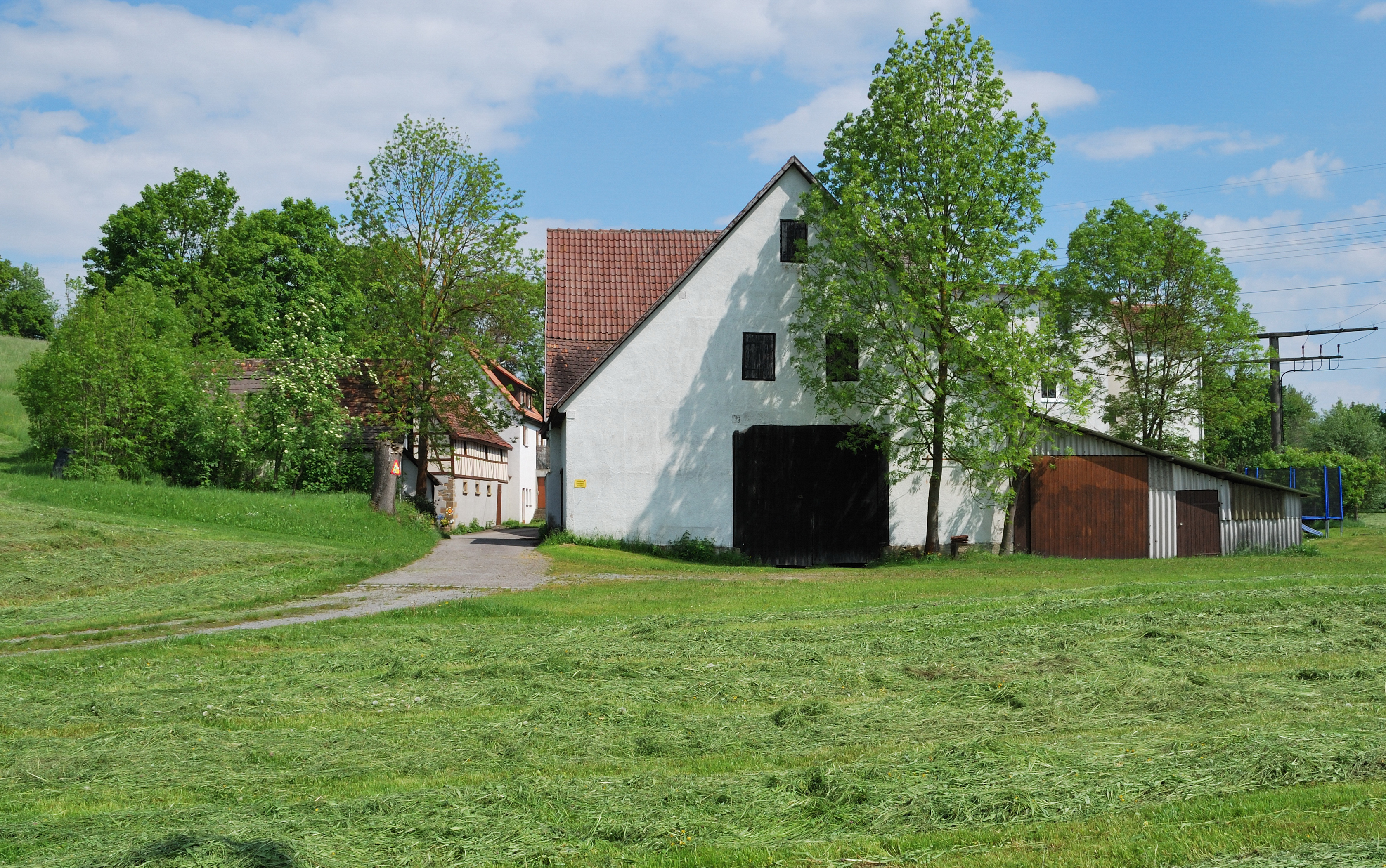 Glemsmühle, a former water mill on the river Glems in Korntal-Münchingen in Baden-Württemberg, Germany. The mill does not work since 1974 anymore. The building serves today as an apartment house.